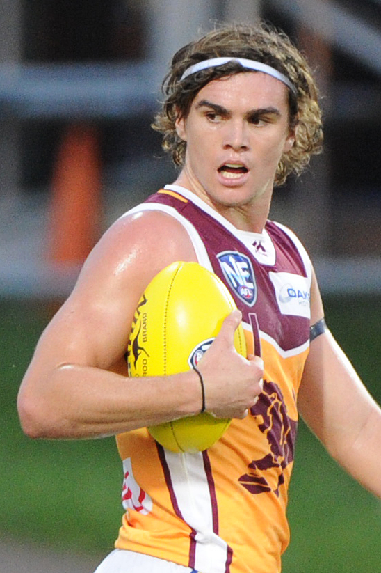 Ben Keays of the Brisbane Lions during the NEAFL round one match between NT Thunder and Brisbane Lions at TIO Stadium on 7 April 2018 in Darwin, Australia.